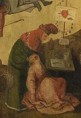 The Hay Wagon, central panel.detail